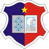 Coat of arms of Semey during Soviet times